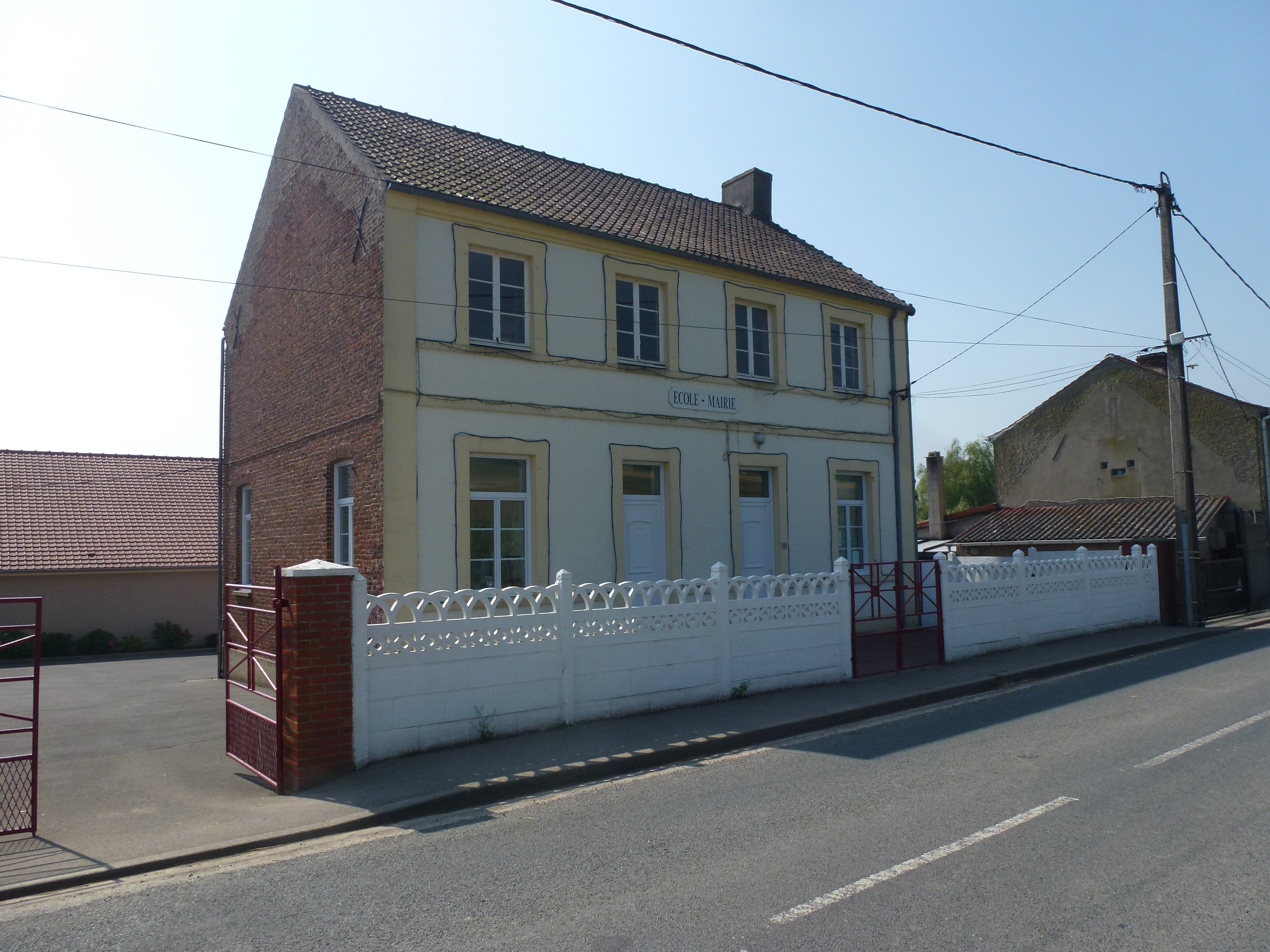 Clerques (Pas-de-Calais) mairie